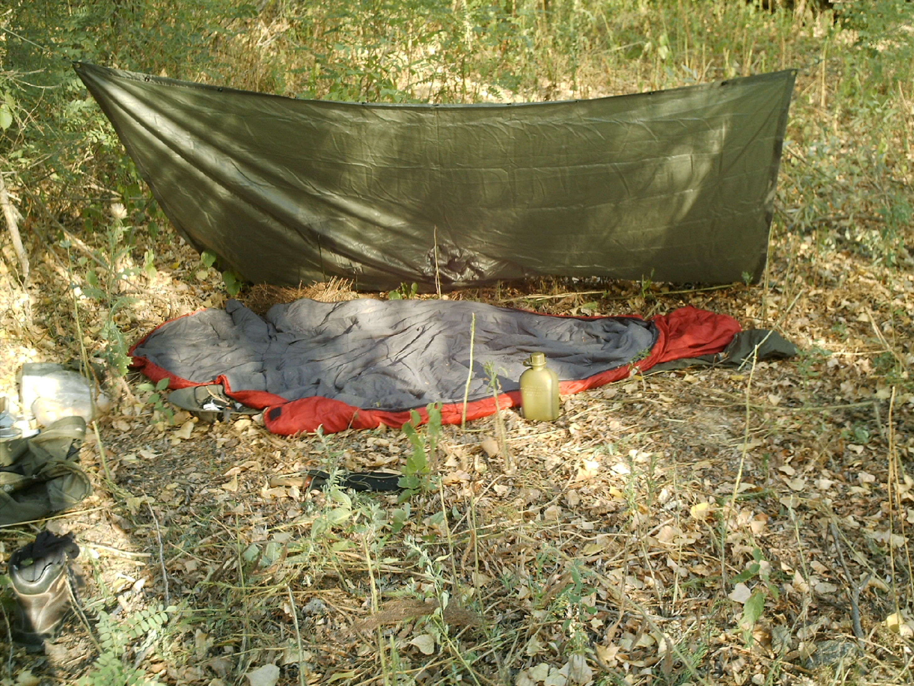 Poncho-tarp-shelter